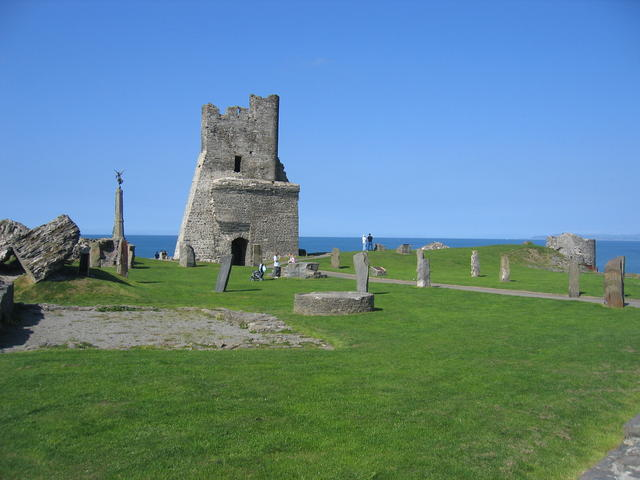 Aberystwyth Castle. Inside the ruins of the main keep. The central plinth of the ring of stones is engraved to commemorate their use in the Eisteddfod of 1915.